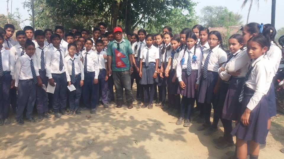 Students of Siddhartha Shikshya Sadan with cyclist Bhakta Khawas in world tour